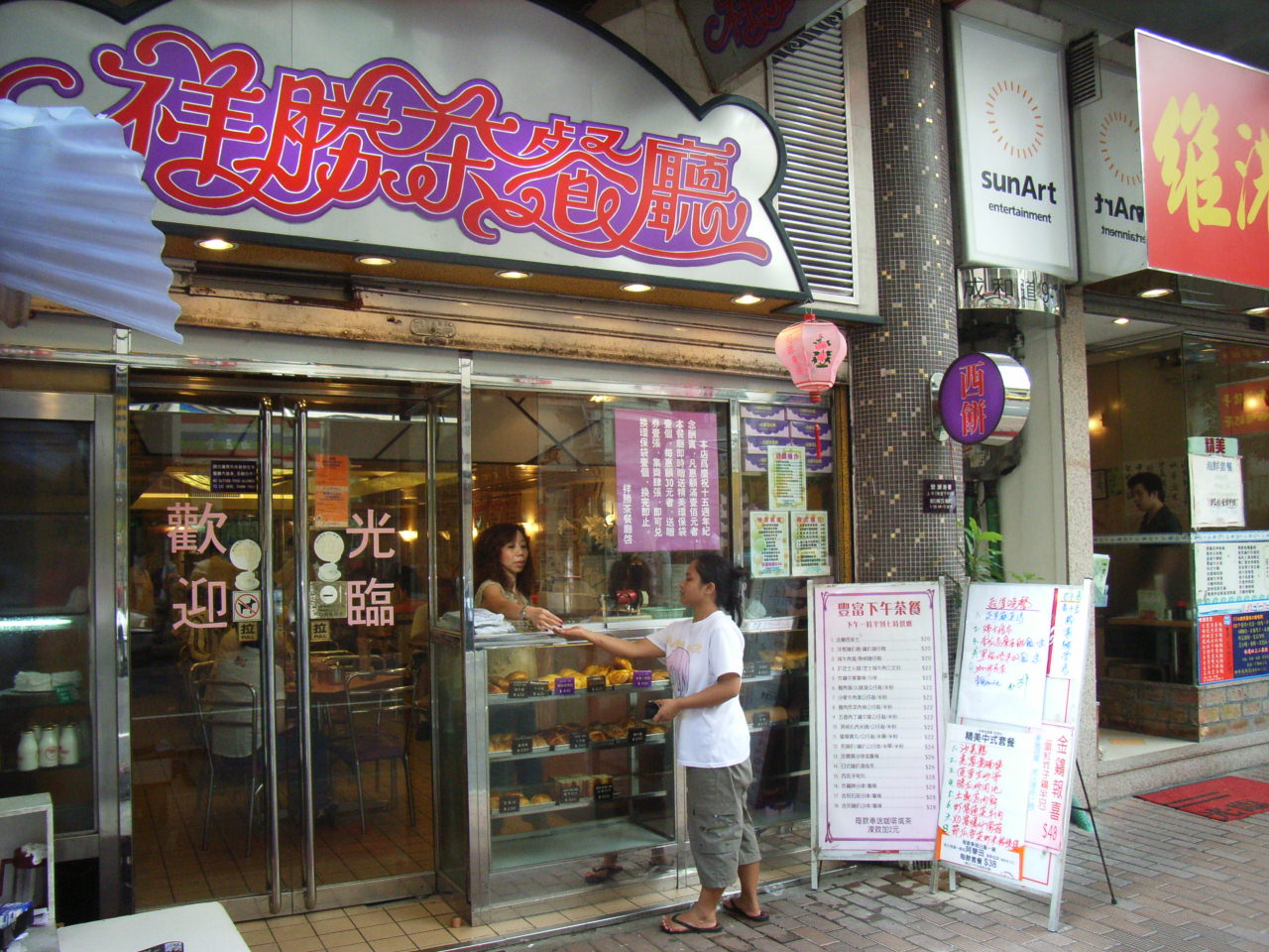 成和道(Shing Woo Road)，是香港島zh:跑馬地市中心區內人流最多的一條大街。 Author: BEVERLYSHEN